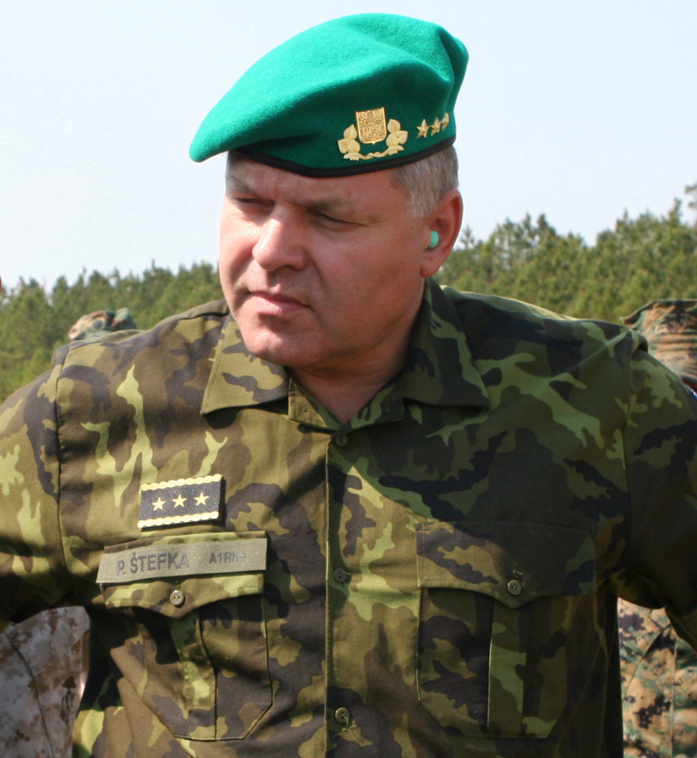 MARINE CORPS BASE CAMP LEJEUNE, N.C. - The top military officer for the Czech Republic's military, Lt. Gen. Pavel Stefka, chief of general staff of the armed forces, listens intently to an instructor from the base scout sniper school as Lt. Gen. James Amos, commanding general, II Marine Expeditionary Force, looks on April 20. Stefka and a delegation of top Czech officers got an opportunity to view training and capabilities of II MEF during a recent visit to the United States. Within the last ten years, the Czech Republic's military forces have deployed in support of allied and US-led operations in Afghanistan, the Balkans and Iraq. (Official U.S. Marine Corps photo by Cpl. Ruben D. Maestre)